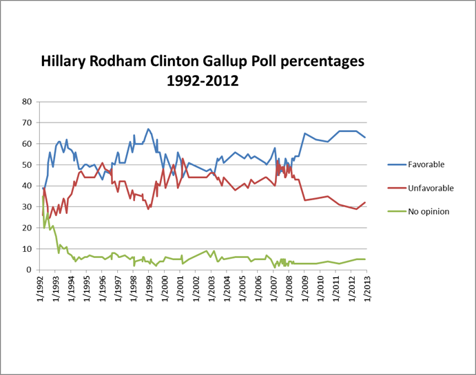 A chart of Hillary Rodham Clinton's Gallup Poll favorability ratings from 1992 through 2012, based upon the data at